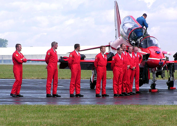 The pilots of the Red Arrows line up for an official photo after their display. Taken by Adrian Pingstone at Kemble Airfield, Gloucestershire, England in June 2004 and released to the public domain.